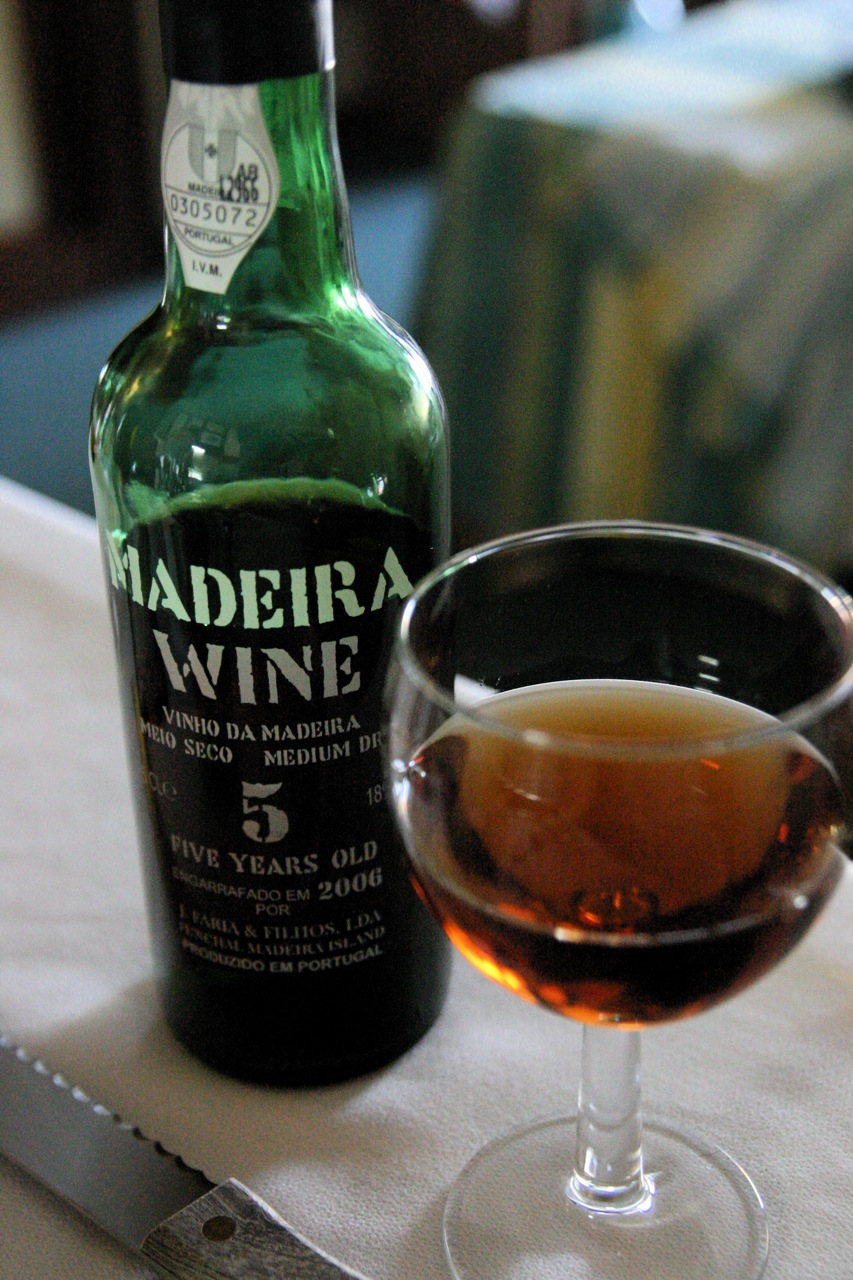 Bottle and glass of 5 year old Madeira wine. This dessert wine is medium dry.